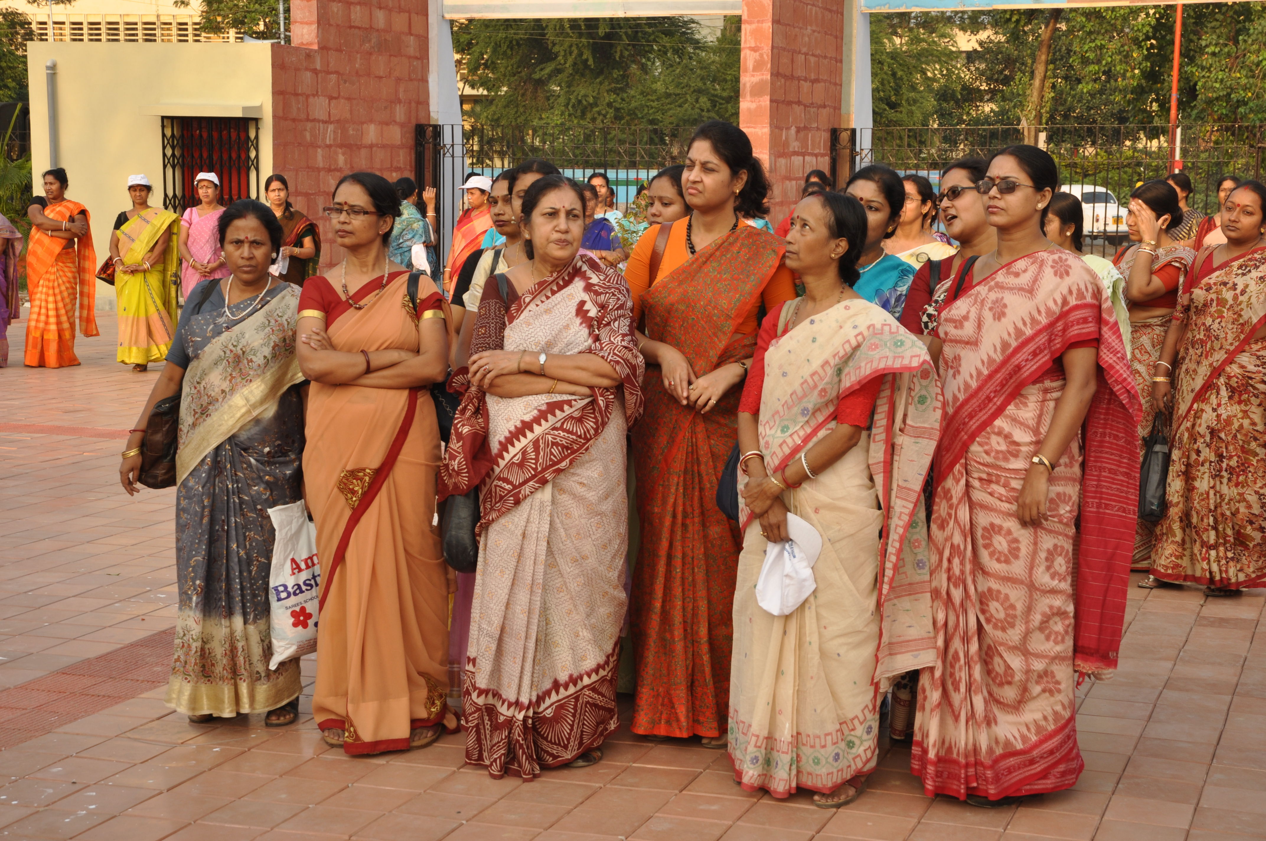 Middle aged house wives wearing Sari watching a function at Salt Lake, Kolkata.